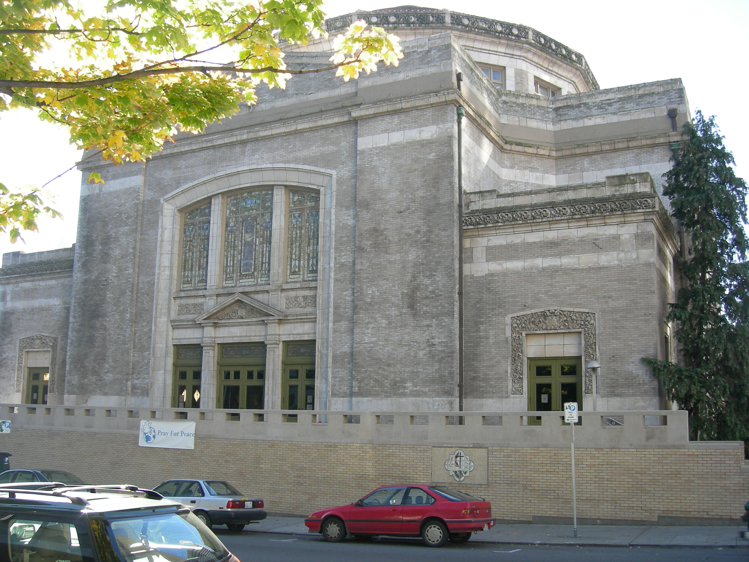 First United Methodist Church, Seattle, Washington. Exterior, seen from across Fifth Avenue.